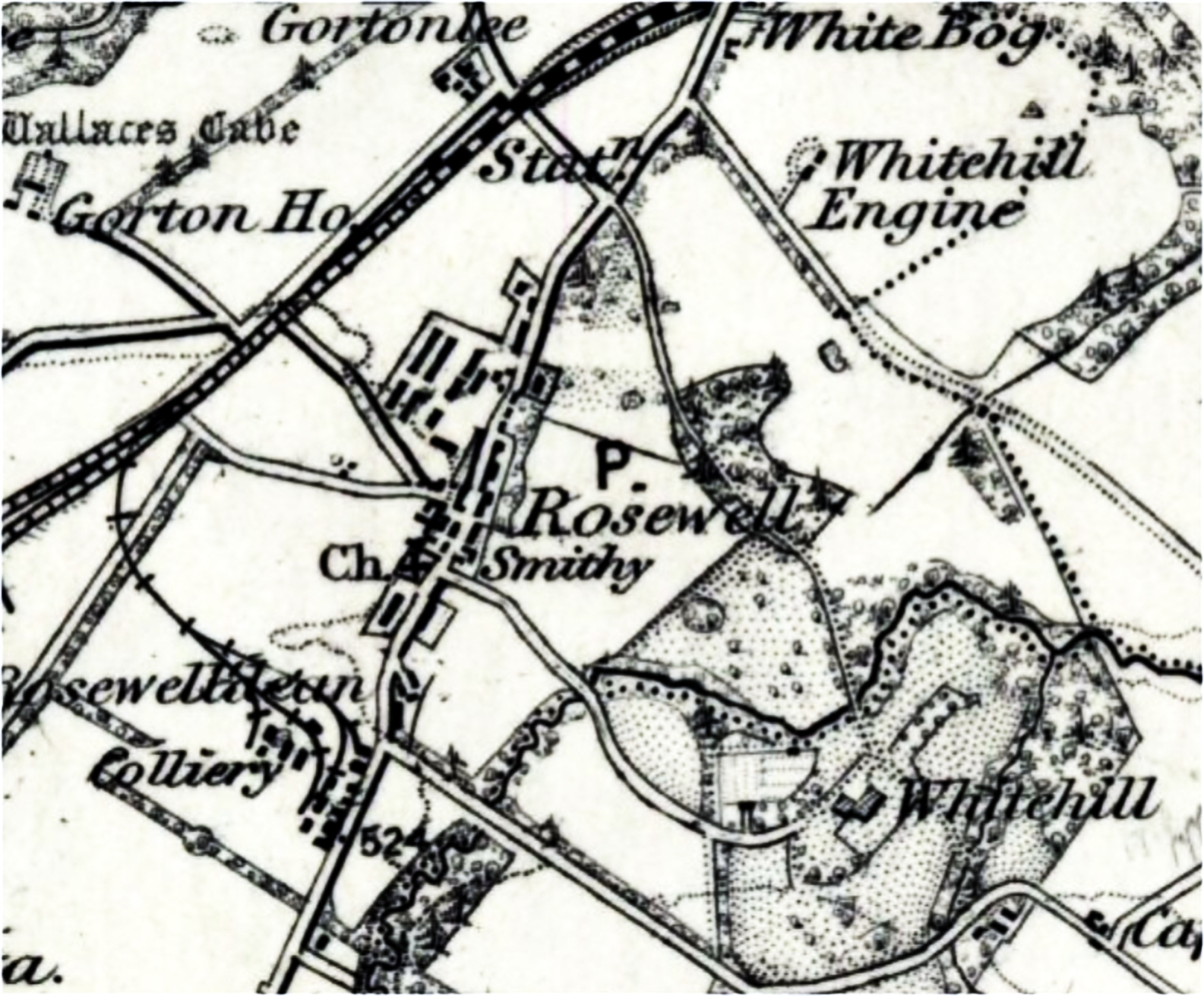 This is a map of the village of Rosewell in the county of Midlothian, extracted from Ordnance Survey 1 inch to 1 mile Sheet 32 - Edinburgh, Publication date: 1898 Reproduced with the permission of the National Library of Scotland Other information The actual content is an exact copy of material that is out of copyright due to being published in 1898 and the complete map is made available online by the National Library of Scotland